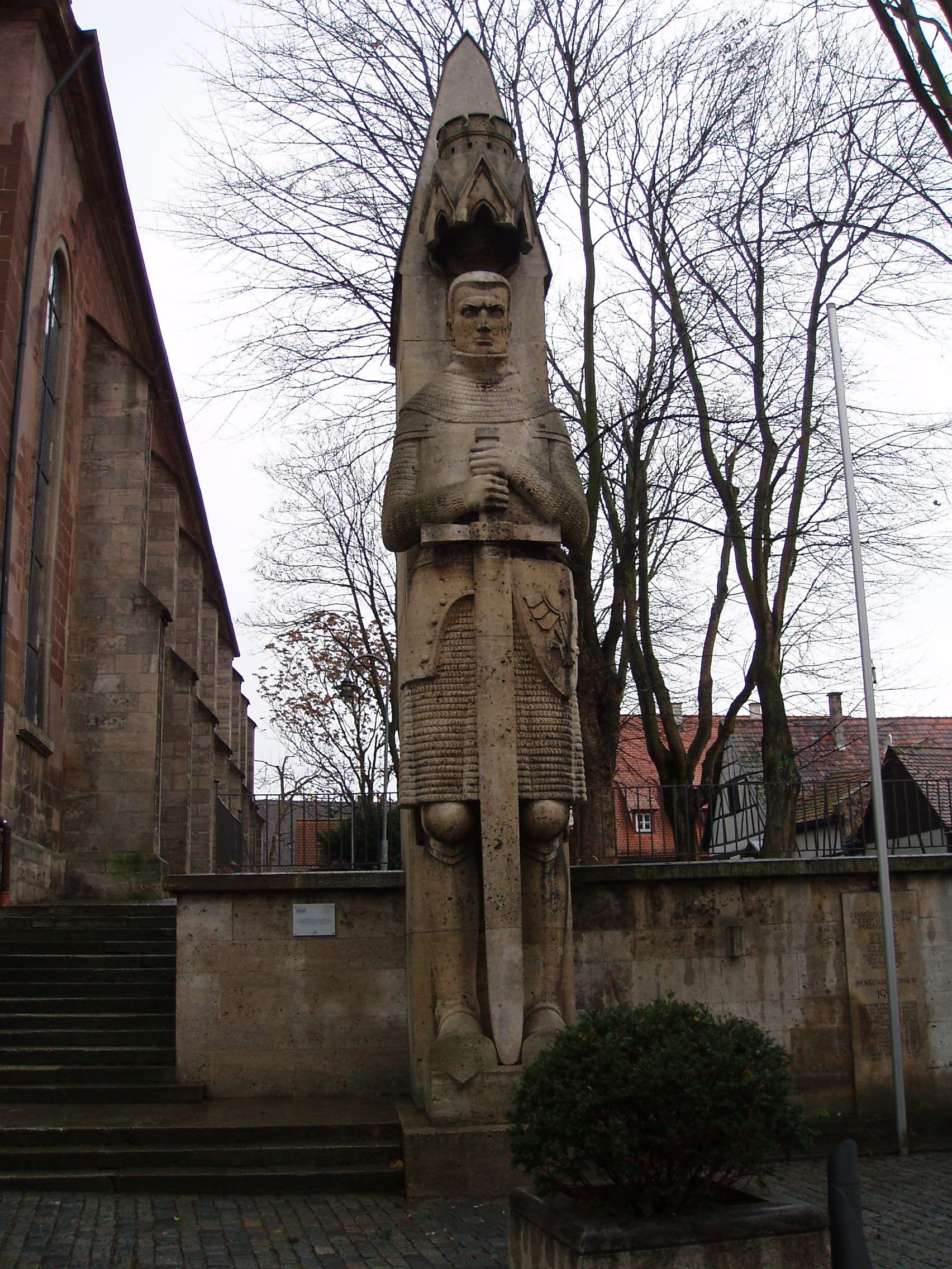 Rolandstatue Bad Windsheim, Germany